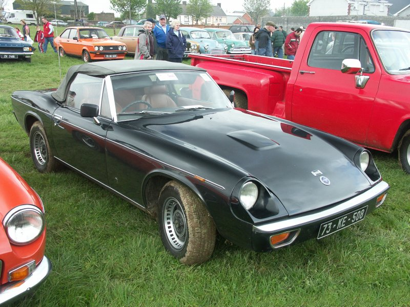 photo by Simon Povey..